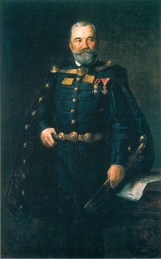 Lonovics József földbirtokos, jogász. Hollósy Kornélia magyar opera-énekesnő férje.